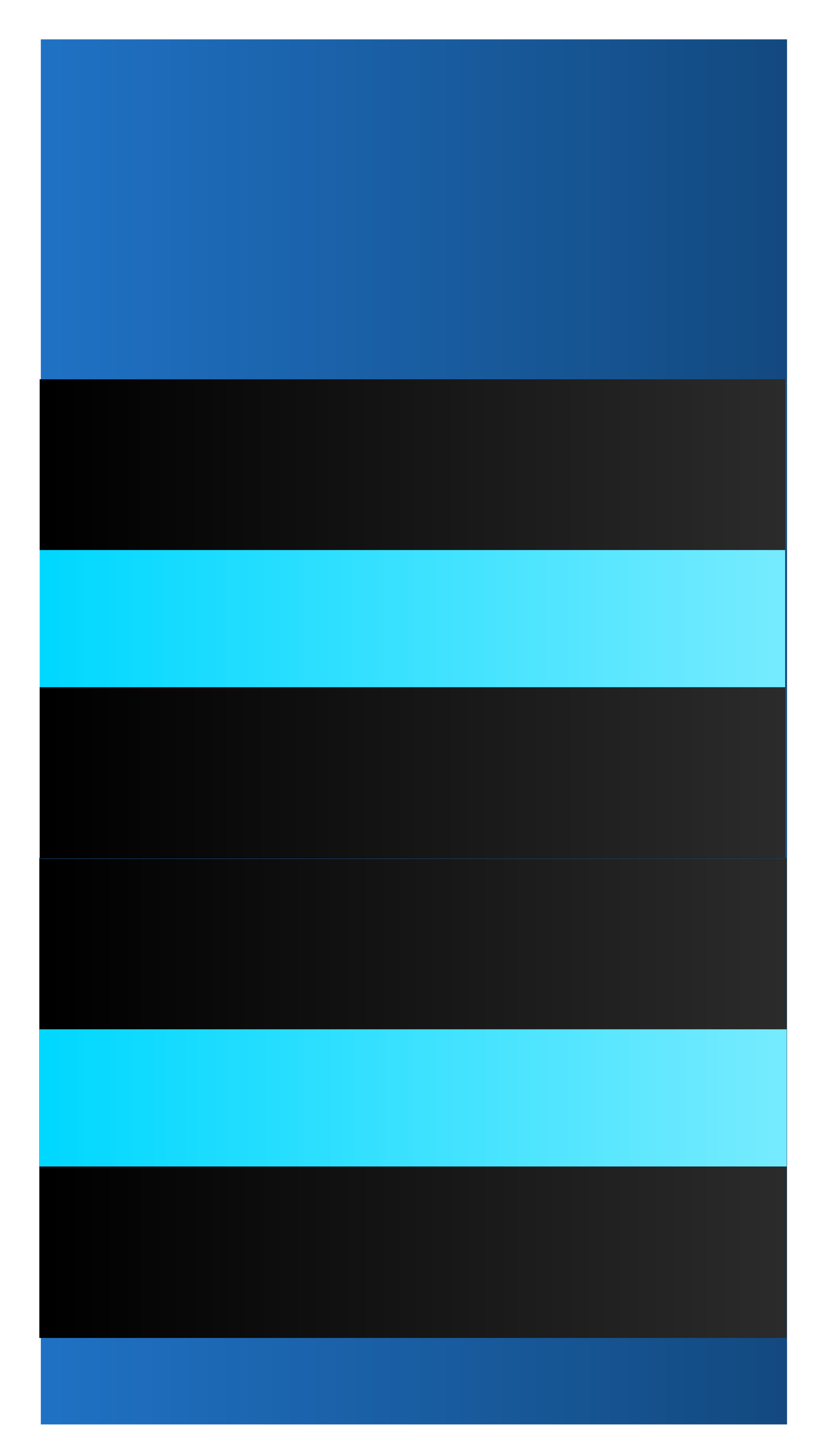 Rank of the Dutch king